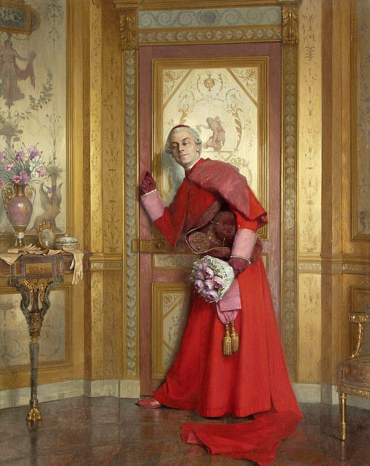 The naughty Cardinal, unknown location.